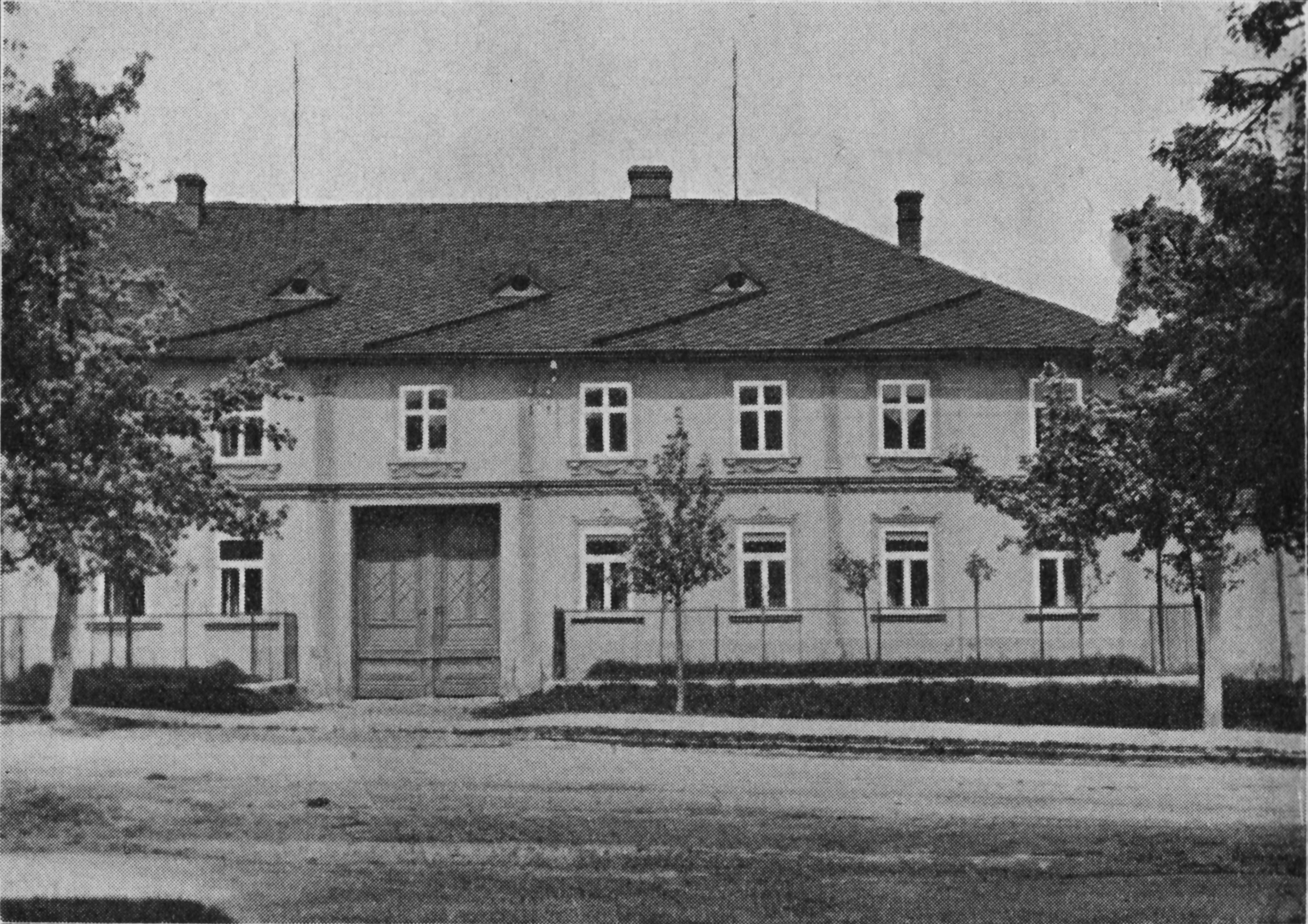 Birthplace of Jan Smyčka in Cholina. Jan Smyčka was a physician, archeologist, local politician in Litovel and the founder of the Litovel museum.